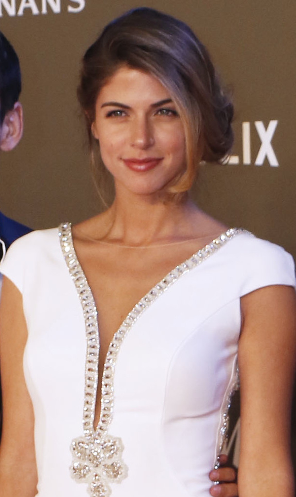 Mariana Treviño, Luis Gerardo Mendez and Stephanie Cayo on the red carpet of Fenix Awards. Mexico City, 6 December, 2017. Photographer: Milton Martínez / Secretaría de Cultura CDMX.